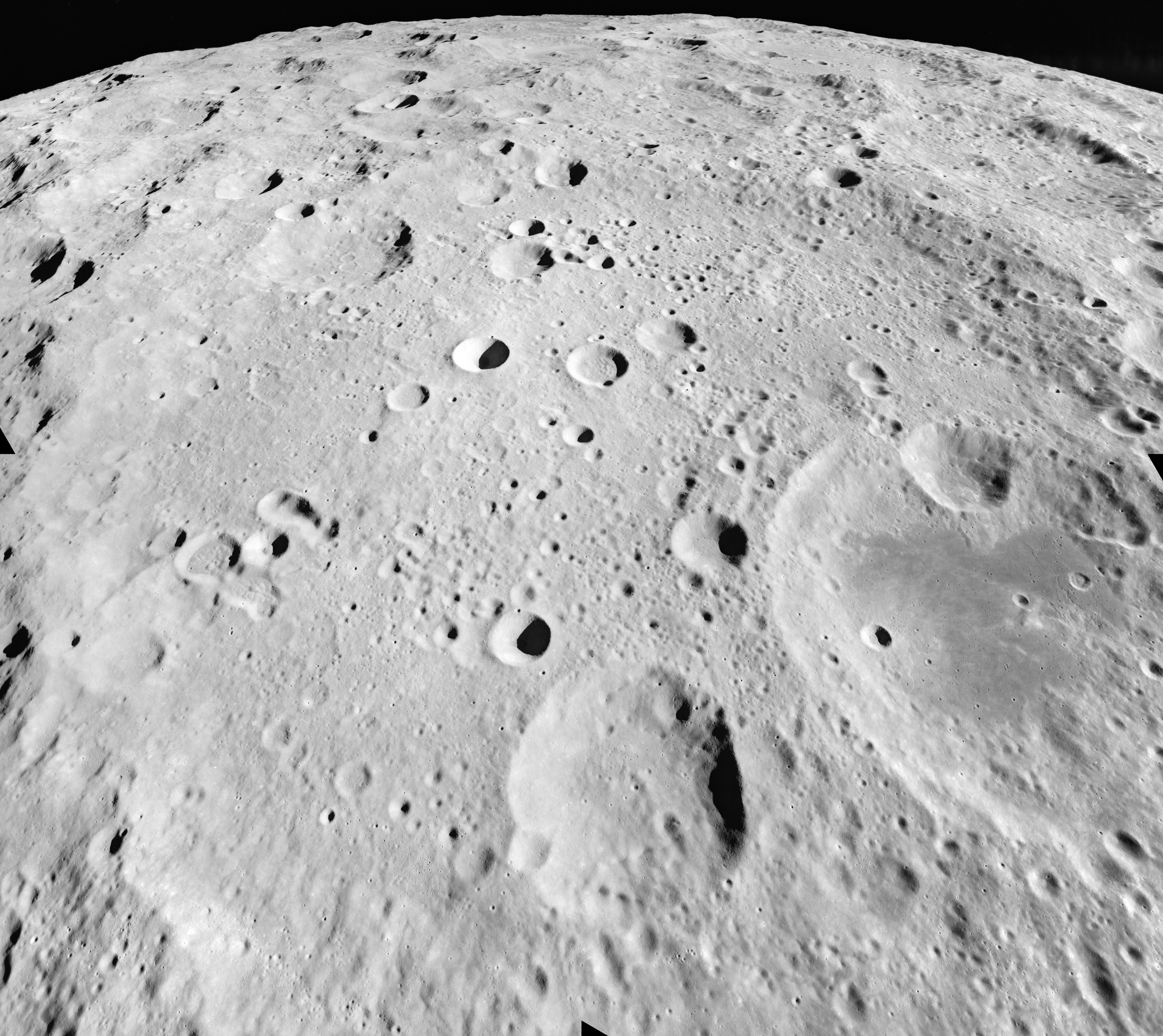 Oblique view of Gagarin, on the far side of the moon, facing south. Taken from an altitude of approximately 123 km on Revolution 36 of the Apollo 17 mission. Sun angle is about 22 deg.